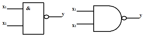 JA-EI loogika skeem